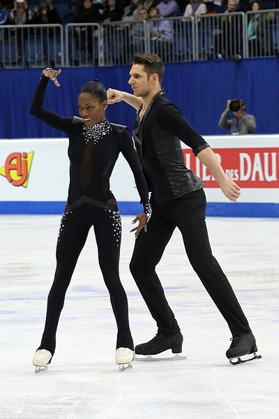 Vanessa James and Morgan Ciprès at the 2016 European Figure Skating Championships.